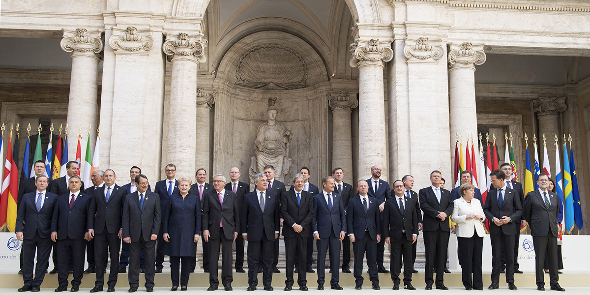 Group photograph of EU heads of government on occasion of the 60th anniversary of the Treaty of Rome in Rome